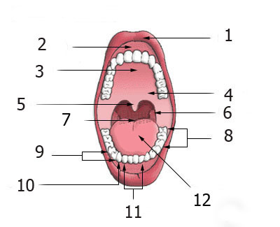 oral cavity with numbered annotations (for non-english wikipedias)